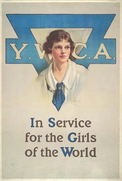 Head-and-shoulders of young woman in front of Y.W.C.A. insignia. YMCA - Neysa Moran McMein (1888-1949) 'Y.W.C.A. In Service for the Girls of the World' Poster, 1919